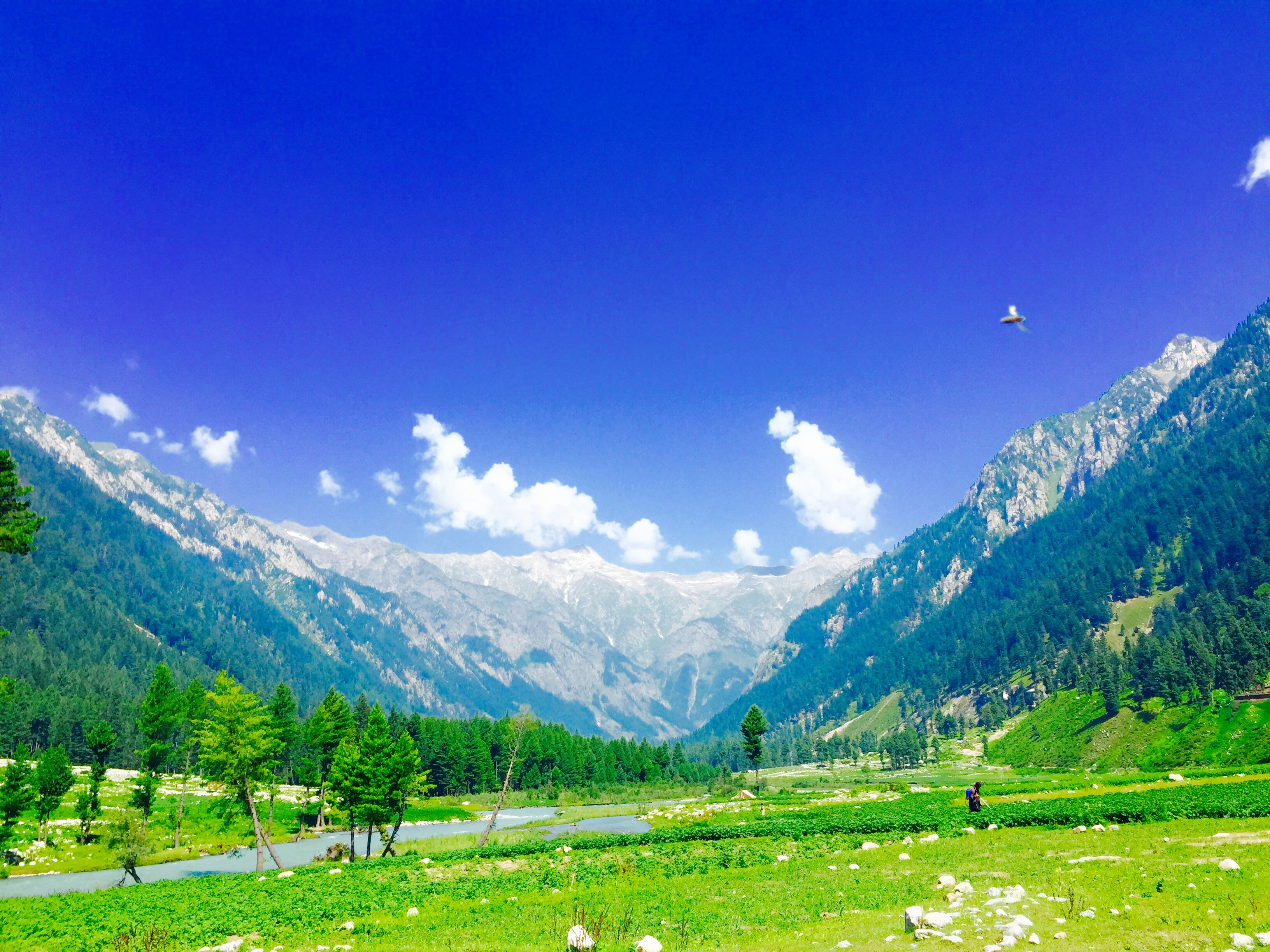 Entering kumrat valley.